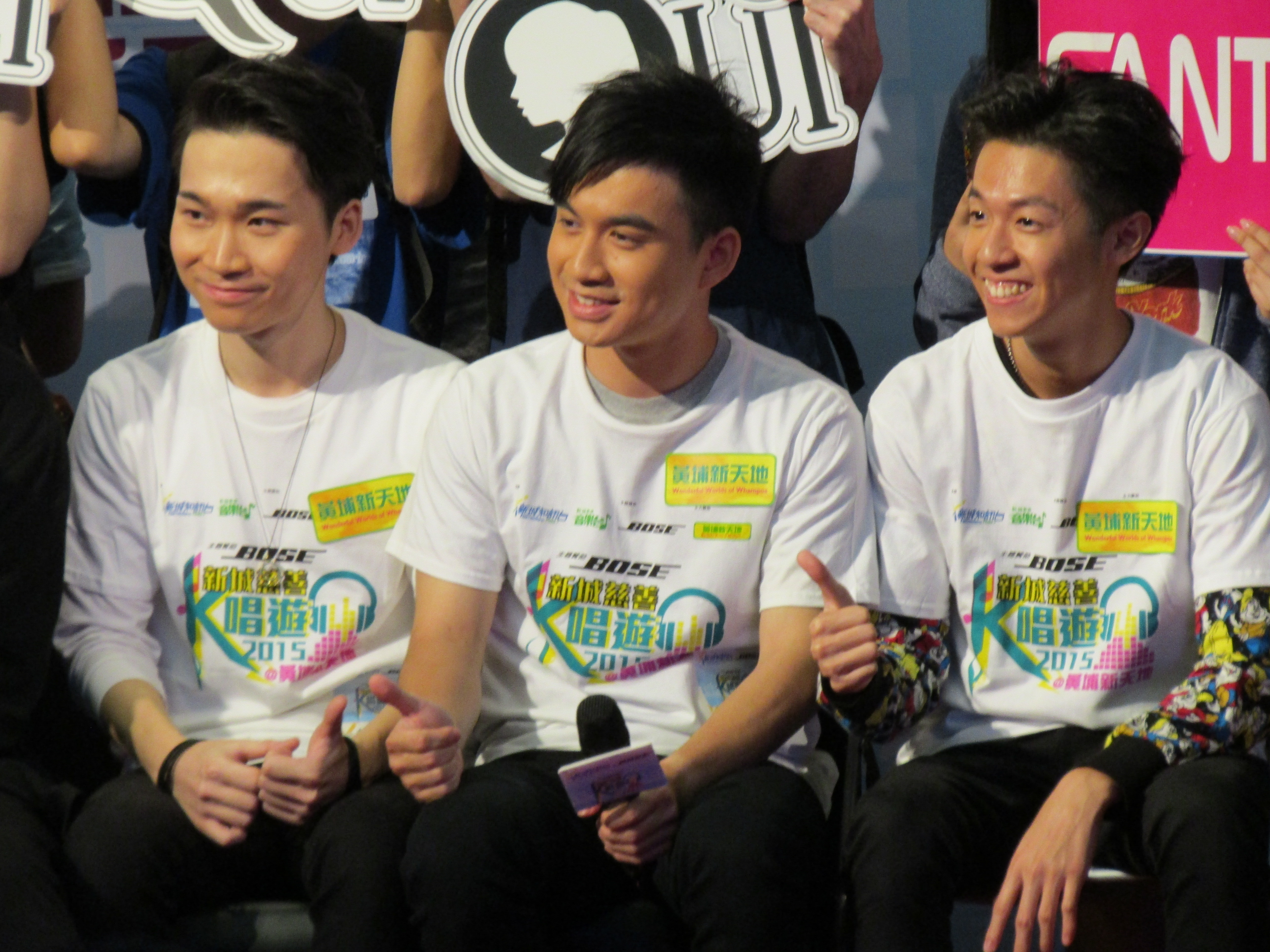 Fantaz are singing at Wonderful Worlds of Whampoa, Hung Hom